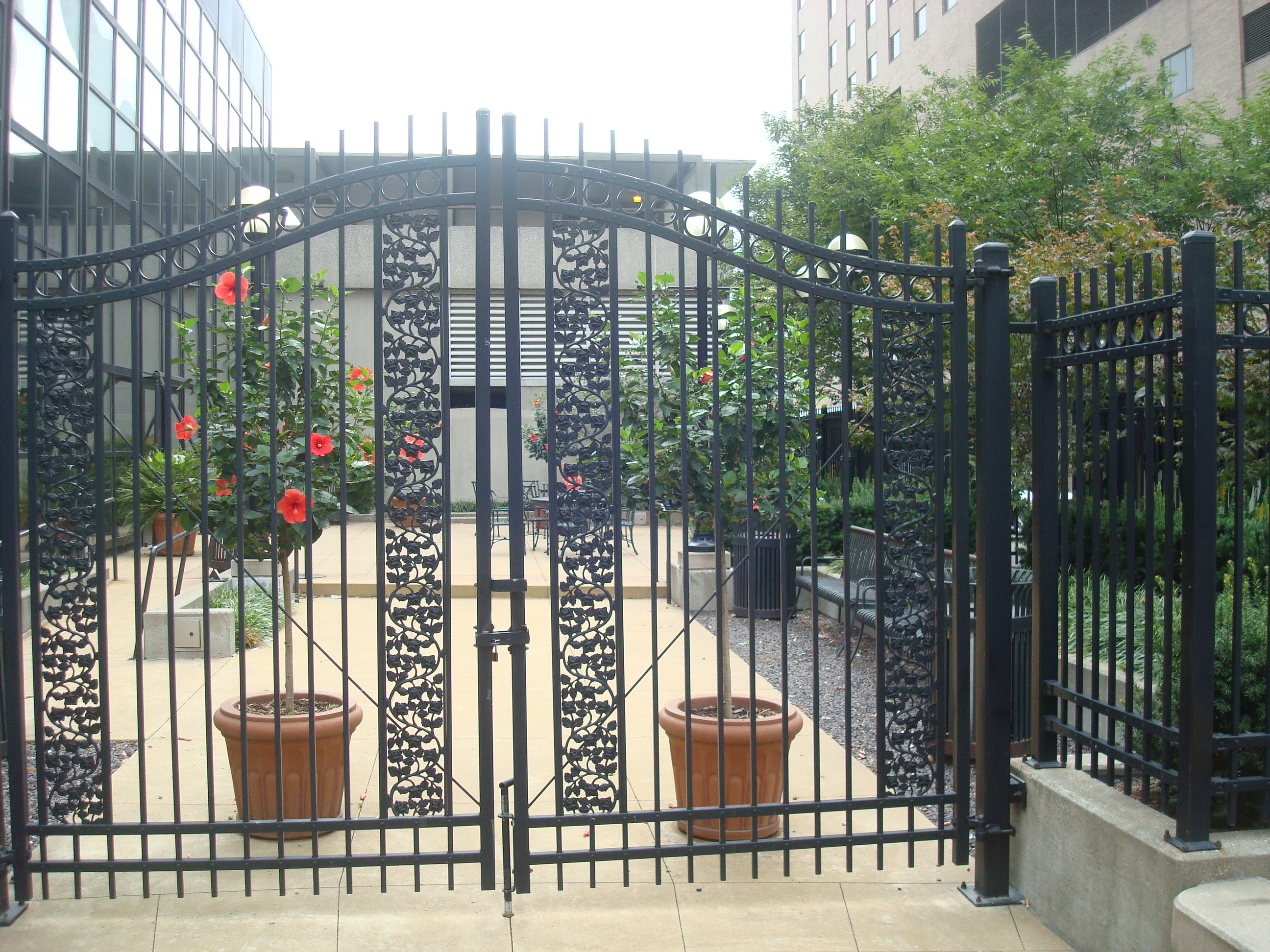 Former location of Martin Wilkes Heron's saloon, 319 Pine St, St. Louis, Missouri. Close-up shot.